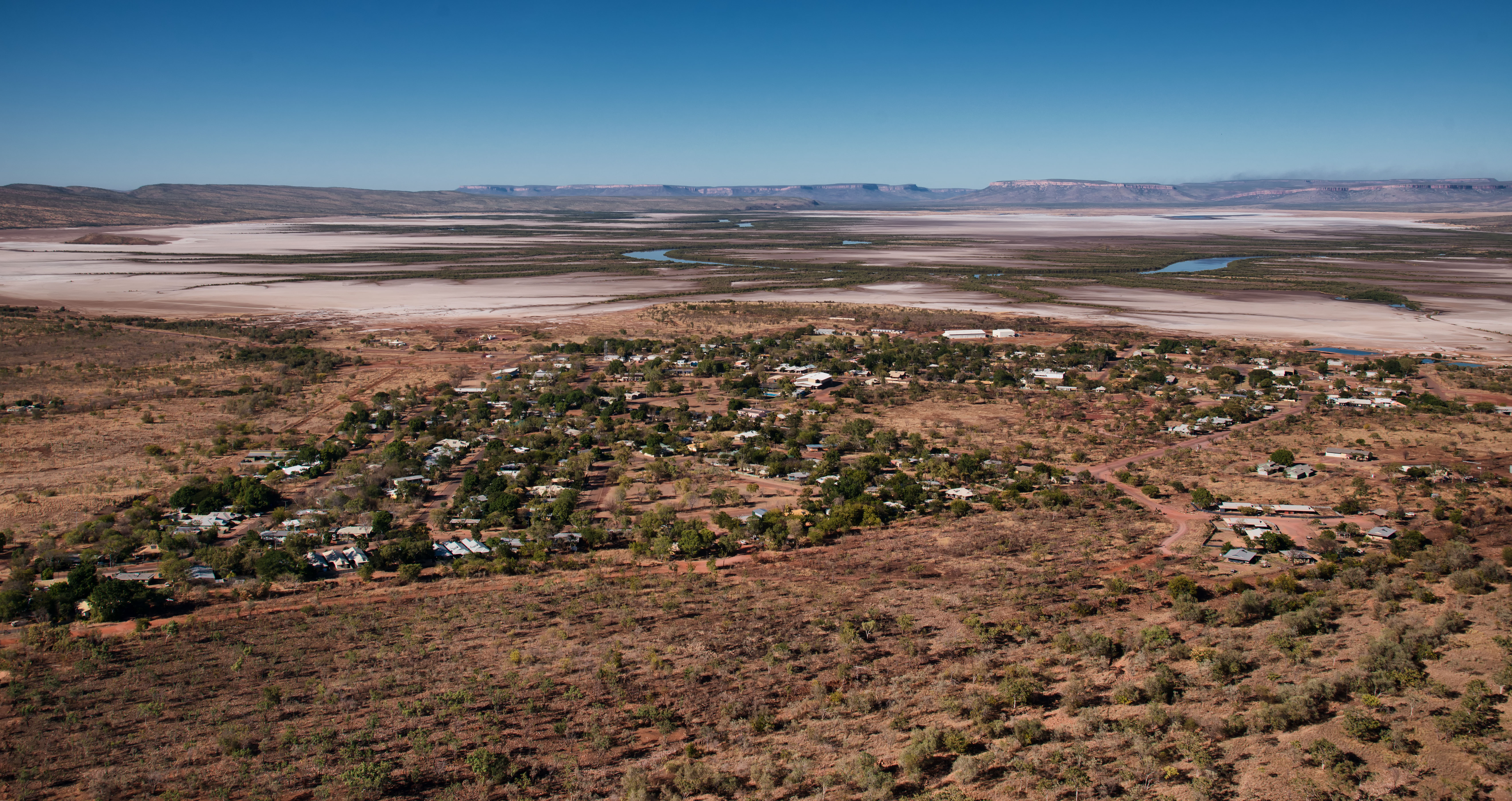 The town of Wyndham,_Western_Australia, looking towards the south with the King River and Cockburn Ranges in the distance.